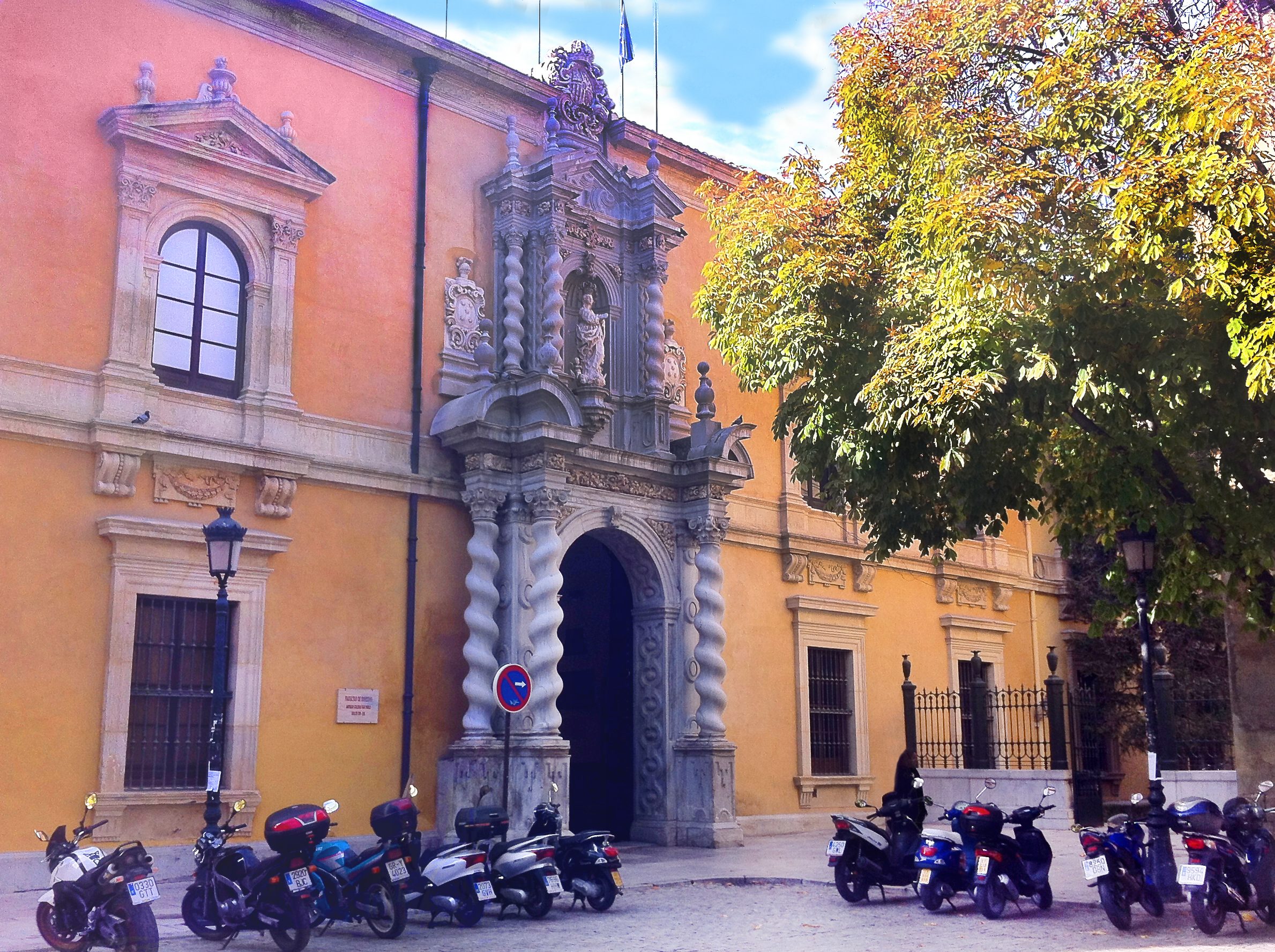 Faculty of Law of University of Granada, Spain.